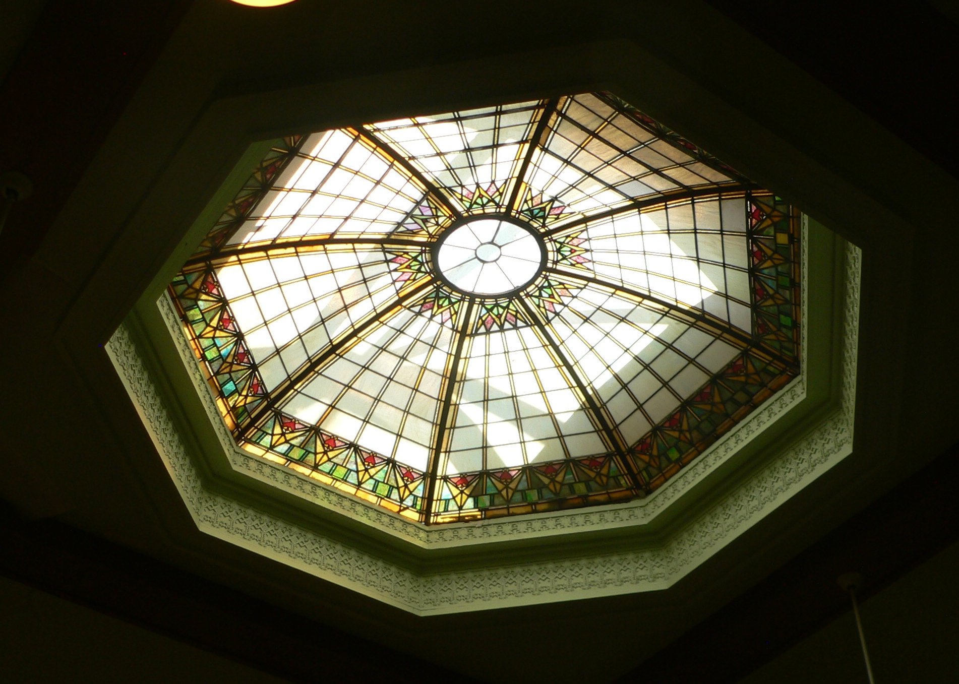 Dome of Charles Mix County courthouse in Lake Andes, South Dakota, seen from inside.